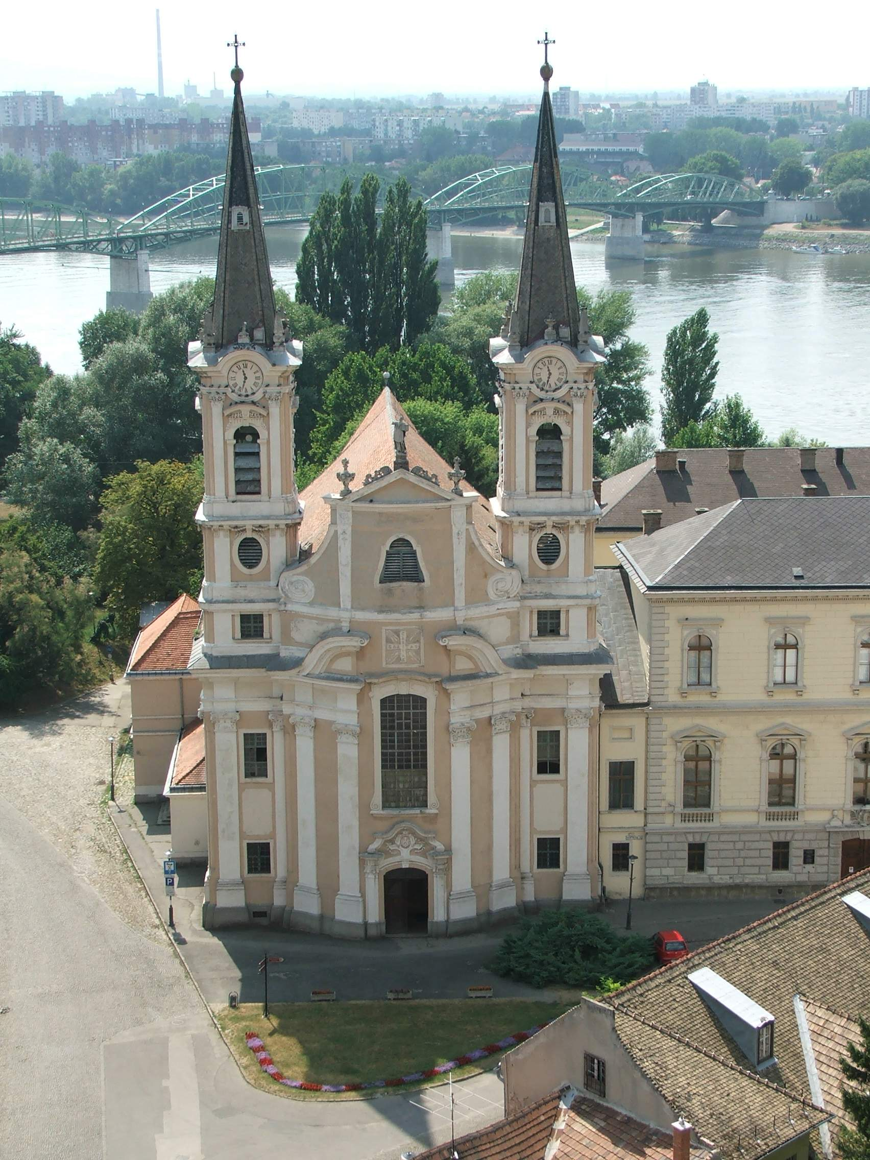 Church in Esztergom-Víziváros (Watertown), Hungary.